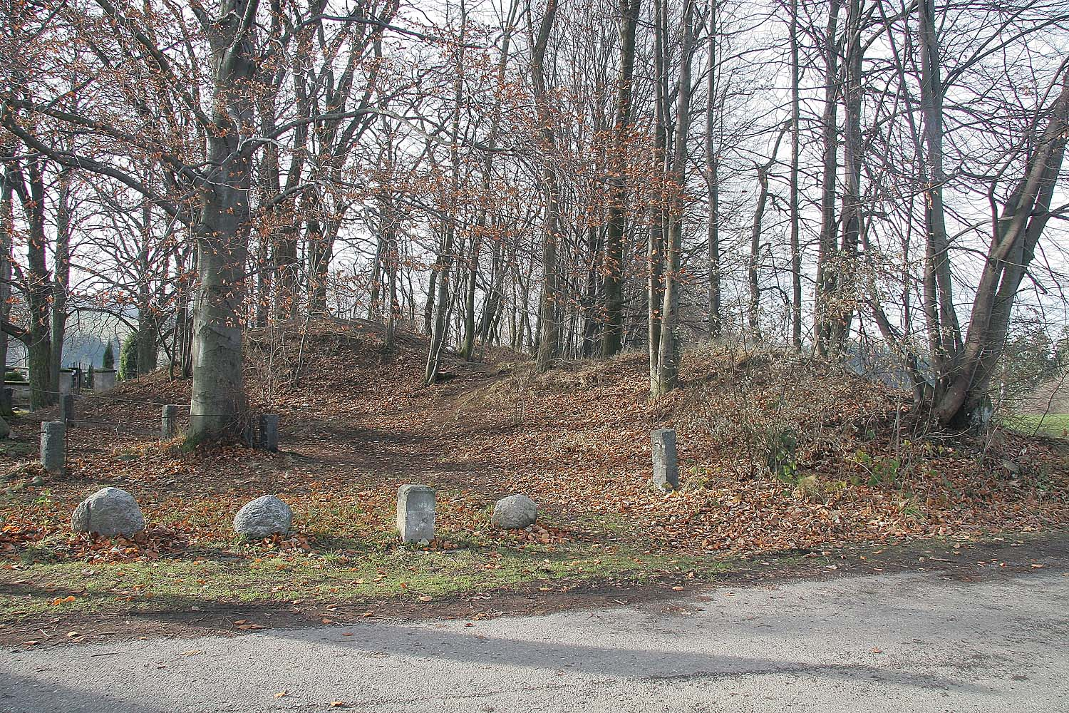 Celtic oppidum from 5th century BCE, České Lhotice, Czech Republic autor:Prazak datum: 23. 11. 2006